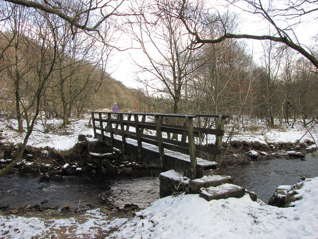 Footbridge over Eagley Brook Eagley Brook flows through Longworth Clough (SSSI). The path is a popular country walk with a rich wildlife including buzzard, kestrel, osprey, kingfisher, dipper, heron and deer. The bridge was put in by Lancashire Countryside Service and was their longest footbridge at that time.